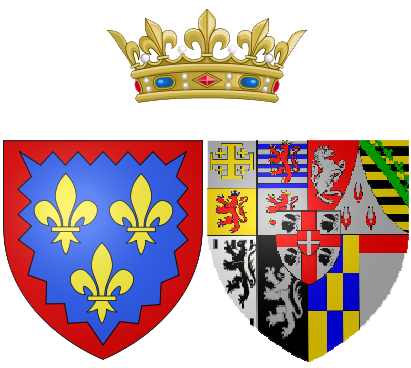 Coat of arms of Marie Joséphine Louise of Savoy as Countess of Provence